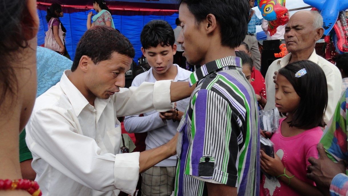 Laying on of hands for healing, at a Christian healing festival in Bhaktapur, Nepal, in 2012.